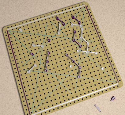 Author: David Bush. Generated with the freeware POV-ray. Twixt position from Bush-Hußmanns, Little Golem game 185132. Hereby placed in the public domain.